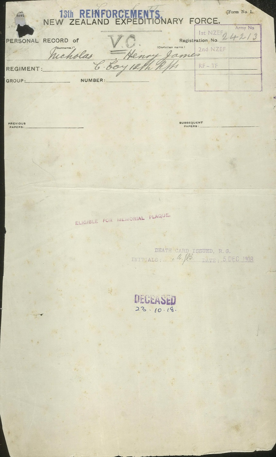 Personnel file (1916 - 1956) of Henry James Nicholas. Served during WWI in the New Zealand Army. Recipient of the Victora Cross (Gallantry Medal). Archives New Zealand Reference: AAAL 18806 W478 2